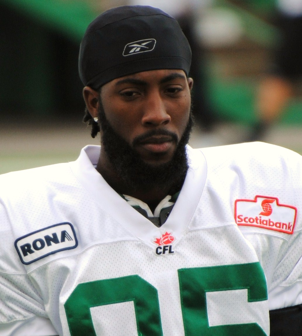 Prechae Rodriguez during a Saskatchewan Roughriders practice.